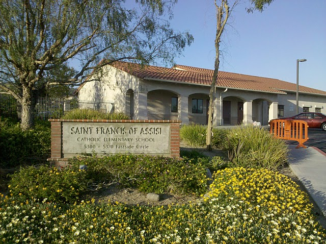 This is the sign and one of the buildings of the Catholic school near the east end of town.